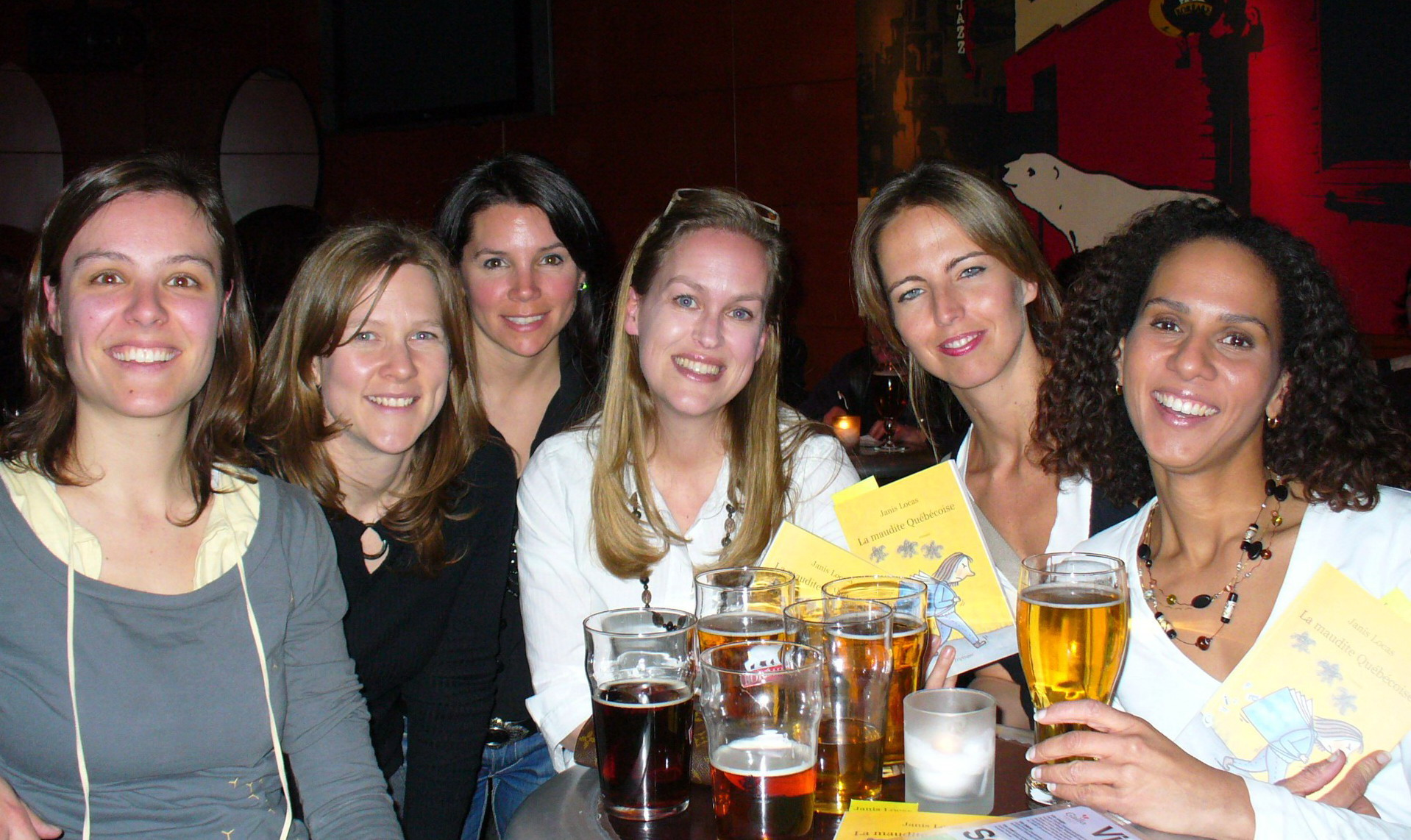 Lancement de La maudite Québécoise en 2010.